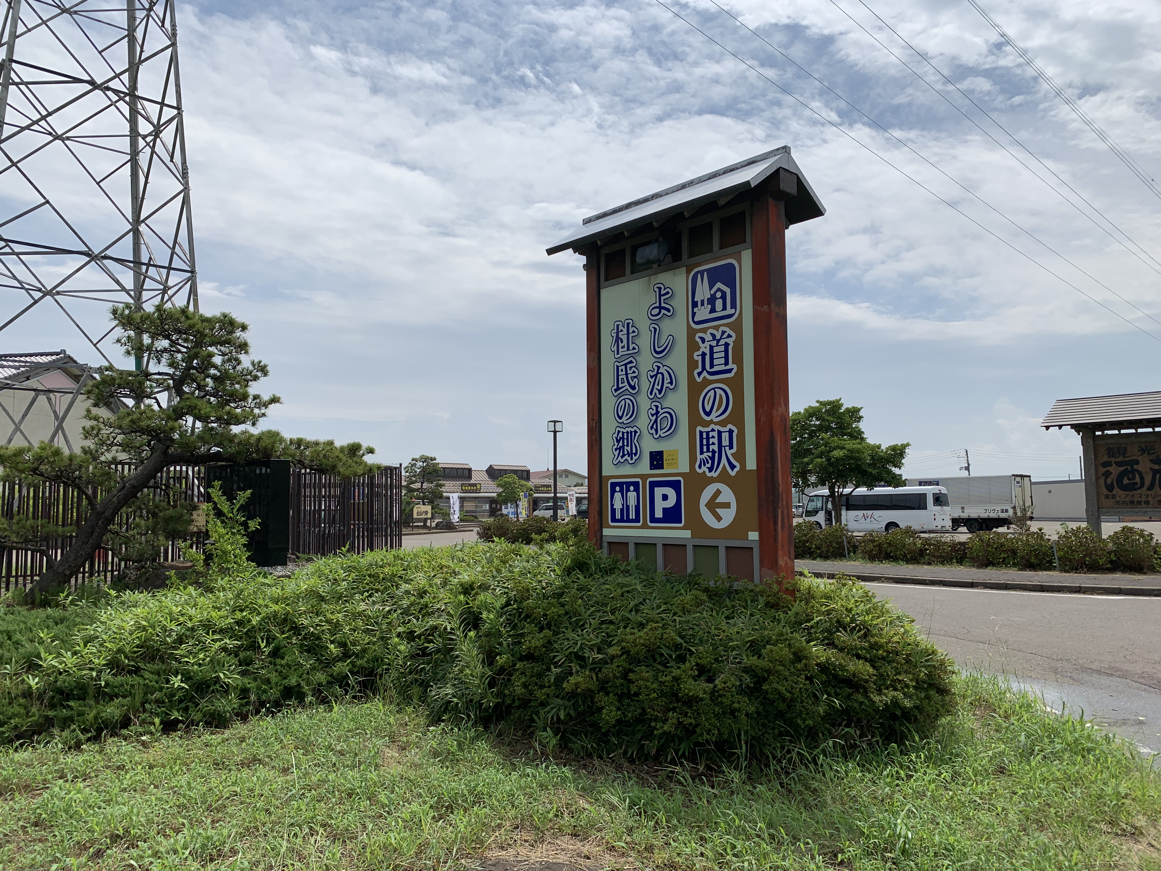 Yoshikawa Toujinosato, Roadside Station, Niigata, Japan. Took photo in August 2019.